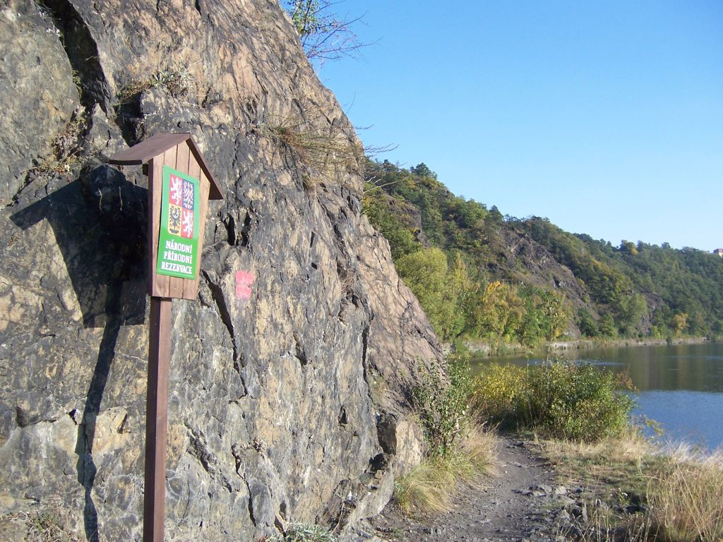 Edge of Větrušické rokle National Nature Reserve in valley of the Vltava River near Větrušice between Prague and Kralupy nad Vltavou, Czech Republic